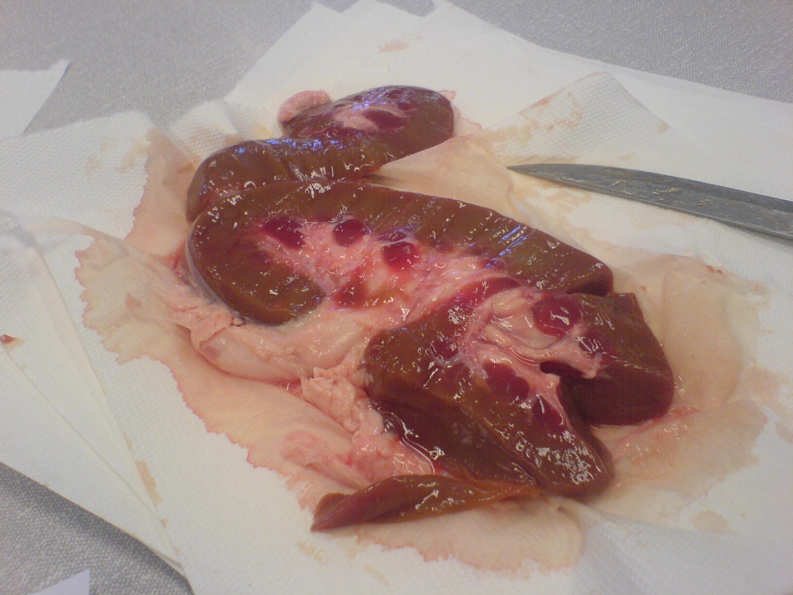 A pig kidney cut up displaying its intestants. Photographed by Thor-Rune Hansen